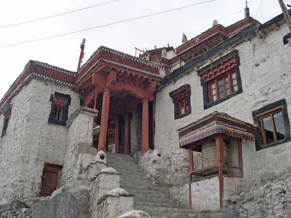 Diskit gompa, Ladakh, India